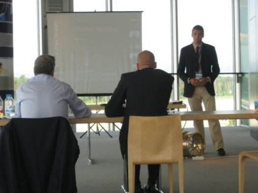 Business Plan Presentation at FSG 2009